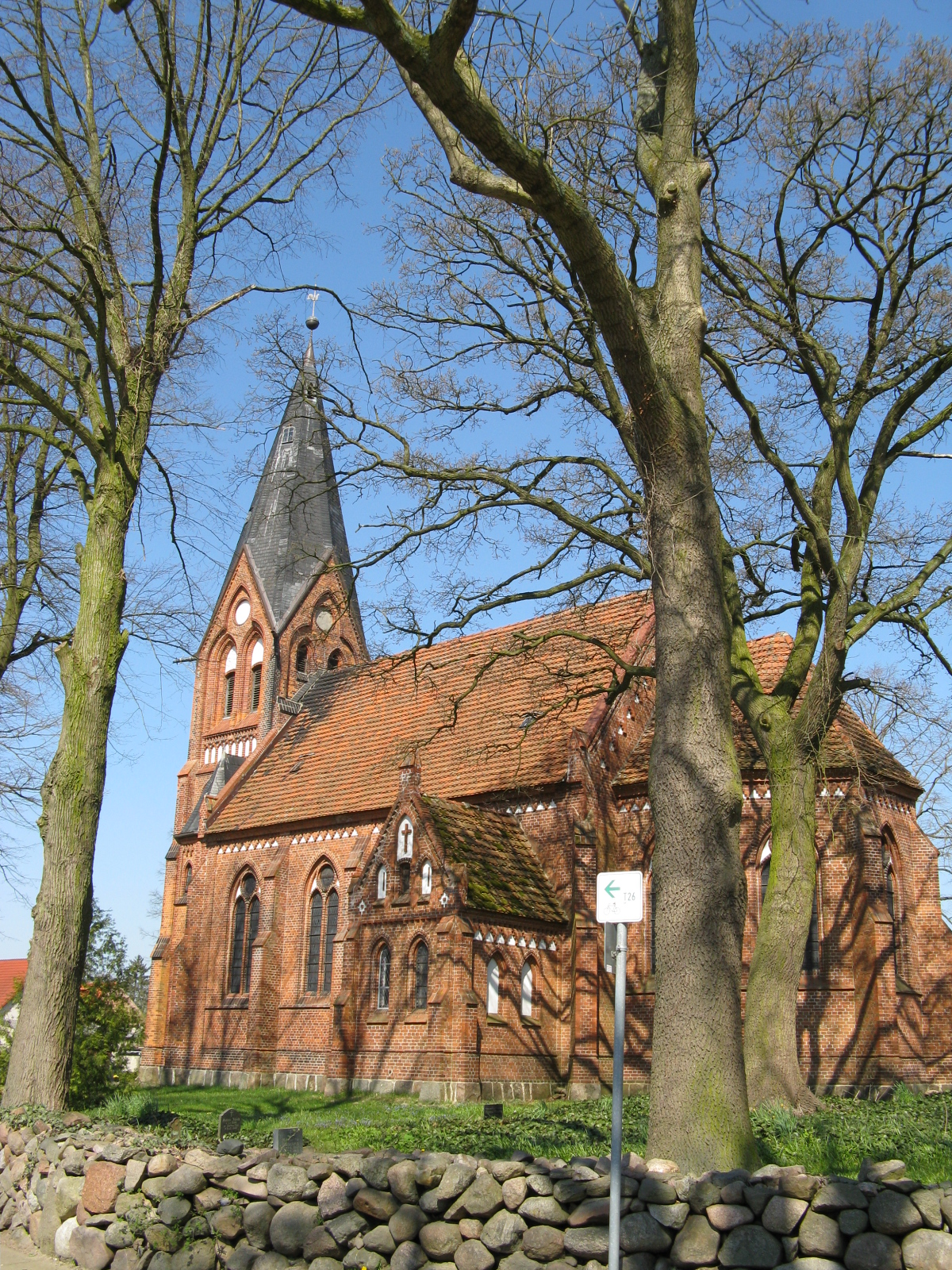 Church in Vietlübbe, district Ludwigslust-Parchim, Mecklenburg-Vorpommern, Germany